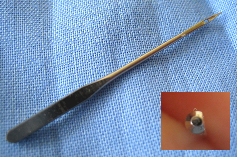 A sewing machine needle with inset showing the flat side of the post. Originally taken for